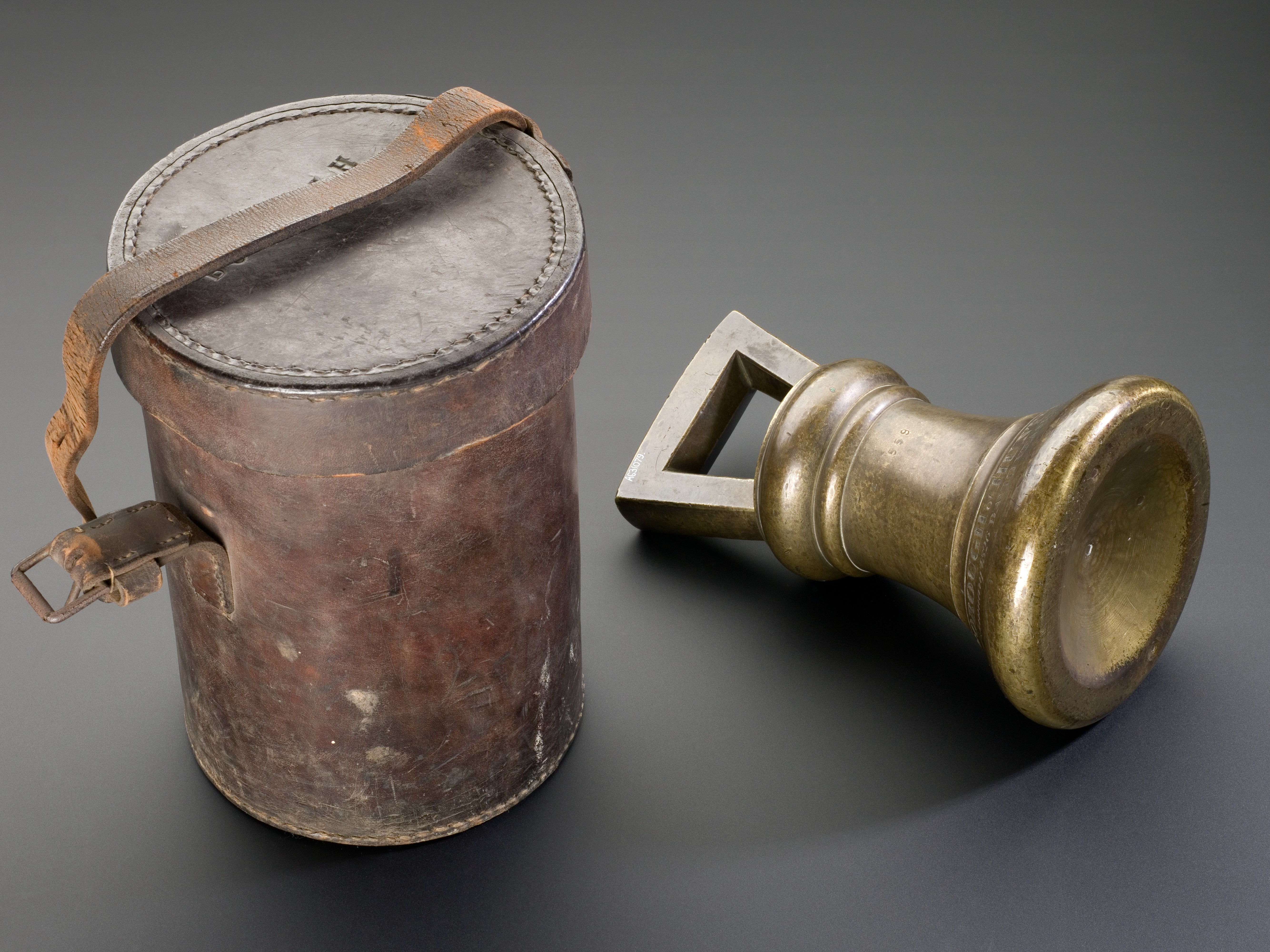 In Britain, weights and measurements became standardised by the appropriately named Weights and Measures Act of 1824. Standardisation was important to ensure consistency in trade throughout the country. The Act came into force in 1826, which is why the brass weight is engraved with the words “Borough of Huntingdon, 1st Day of January 1826”. It is also marked with the name of the local mayor “David Veasey the Younger Esquire”. Huntington was an important market town located in Cambridgeshire, England. The weight weighs 28 lb (12.6 kg) and has its own leather case. maker: Unknown maker Place made: England, United Kingdom Medical Photographic Library Keywords: Weights and Measures; weights